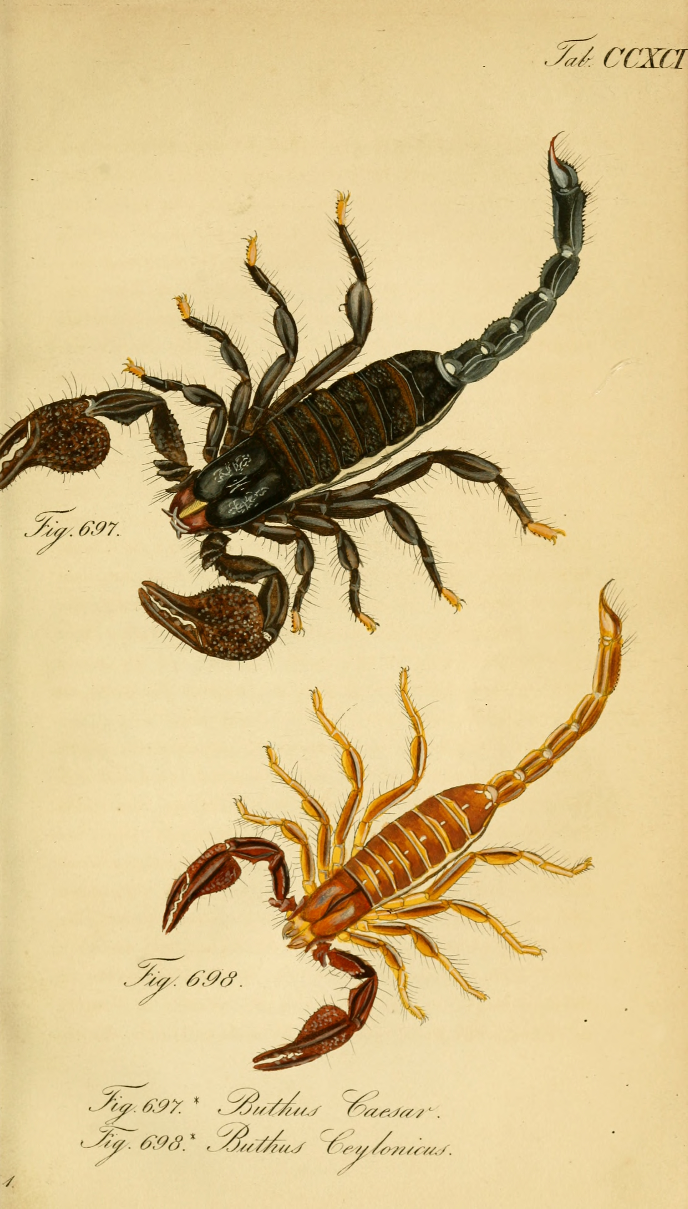 Heterometrus swammerdami, incorrectly idientified as Buthus ceylonicus, and Heterometrus indus, incorrectly identified as Buthus caesar, from Carl Ludwig Koch, Die Arachniden, vol. 9, Nuremberg 1841, plate CCXCI